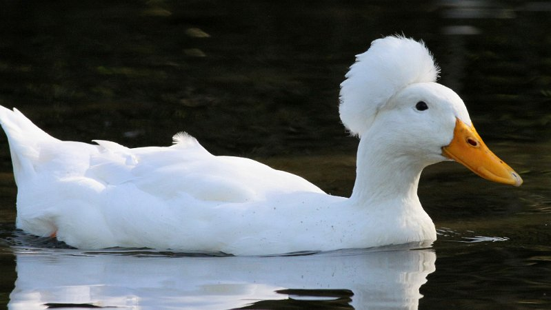 Crested Pekin Duck (Anas platyrhynchos domestica) This image was created by Ken Billington. If you are interested in a high resolution copy of this image, please contact the author Ken Billington in order to negotiate conditions of use. Do not copy this image illegally by ignoring the terms of the license below, as it is not in the public domain. If you would like special permission to use, license, or purchase the image please contact me to negotiate terms. More free images can be found on Ken Billington's Bird & Wildlife Photography.